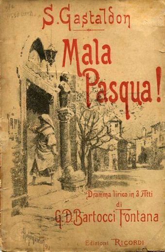 Cover of the libretto for Stanslao Gastaldon's opera Mala Pasqua!. Published by Edizioni Ricordi, Milan, 1890